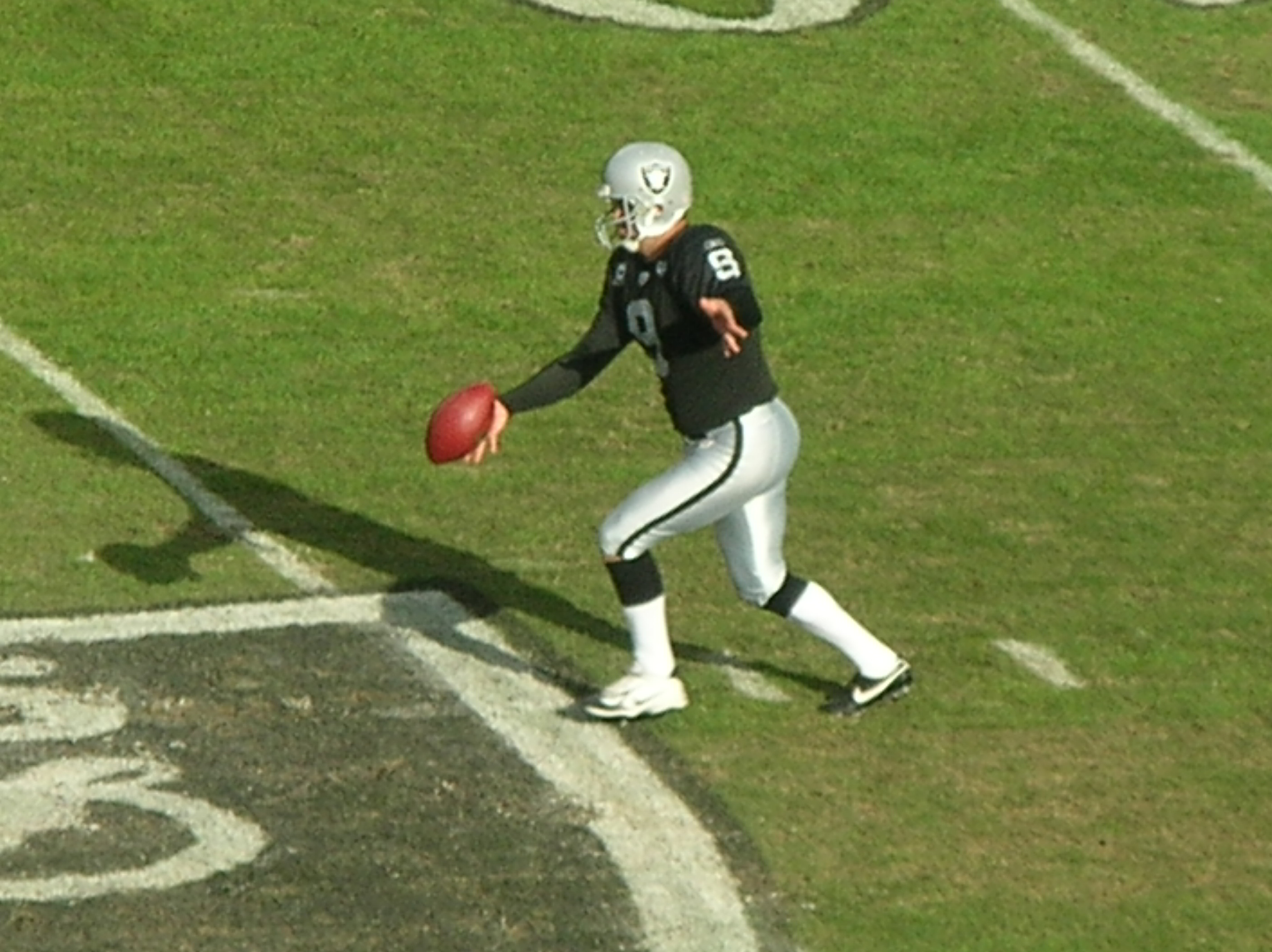 Oakland Raiders punter Shane Lechler punts the ball at a home game against the Atlanta Falcons. The Falcons won 24-0.